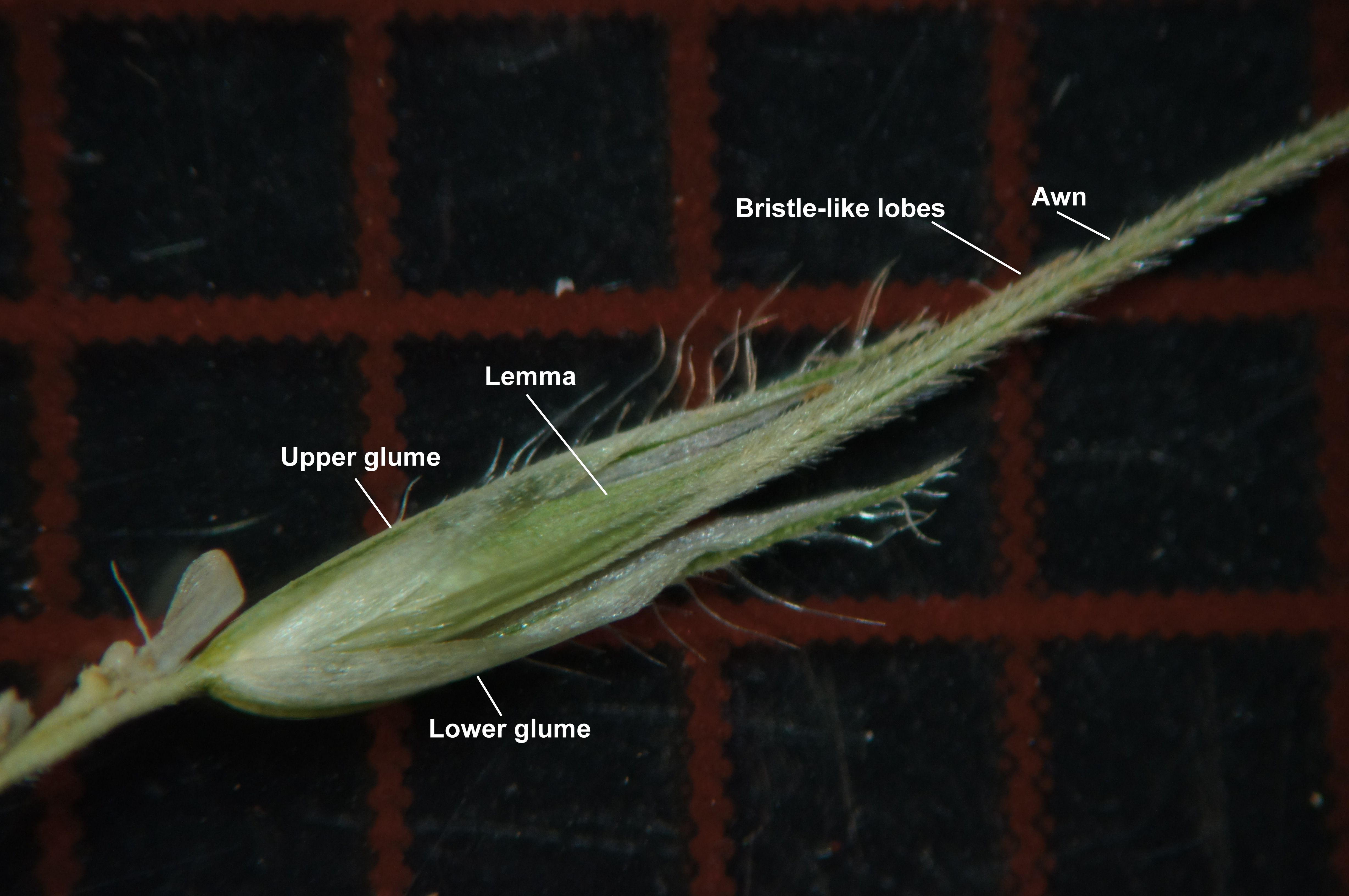 Native, warm season, perennial, loosely tufted grass; stems grow to 90 cm tall and arising from a slender rhizome. Leaf blades are 3–10 mm wide, hairless and rough to the touch. Flowerheads are erect, dense, ovate to oblong panicles 25–65 mm long and 20–40 mm wide (including awns). Spikelets 1-flowered and 4.5–7 mm long; glumes are acuminate to acute, with hairy keels; lemma is shorter or longer than glumes, 4–5 mm long, bi-lobed; lobes are bristle-like and 2–2.5 mm long; callus is densely bearded; awn is rigid and 8–30 mm long. Flowers in spring and summer. Occurs in open areas in forest, often on creek banks and in damp sites.